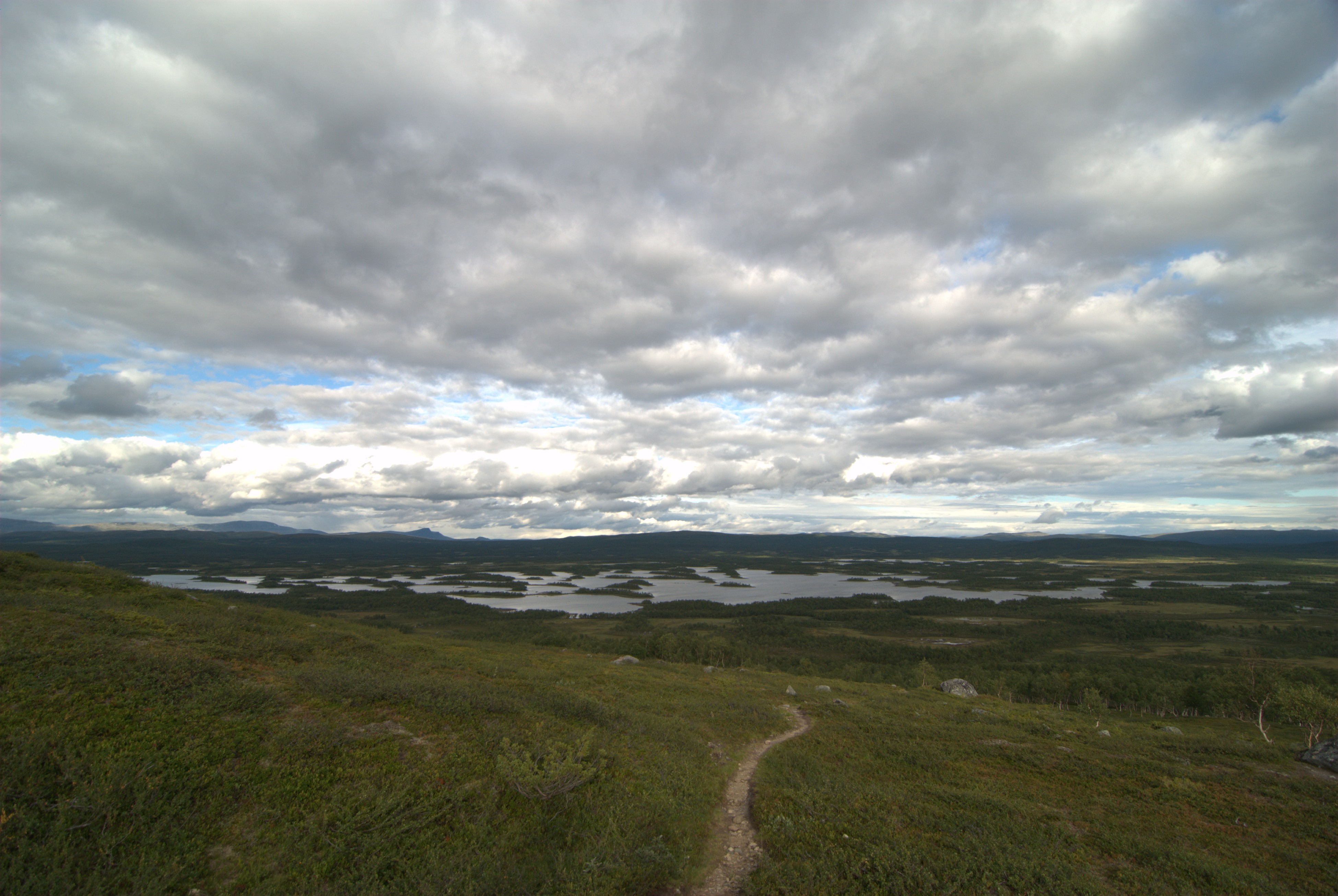 View of the south part of Tärnasjön lake from Kungsleden, Vindelfjällen, Swedish Lapland.